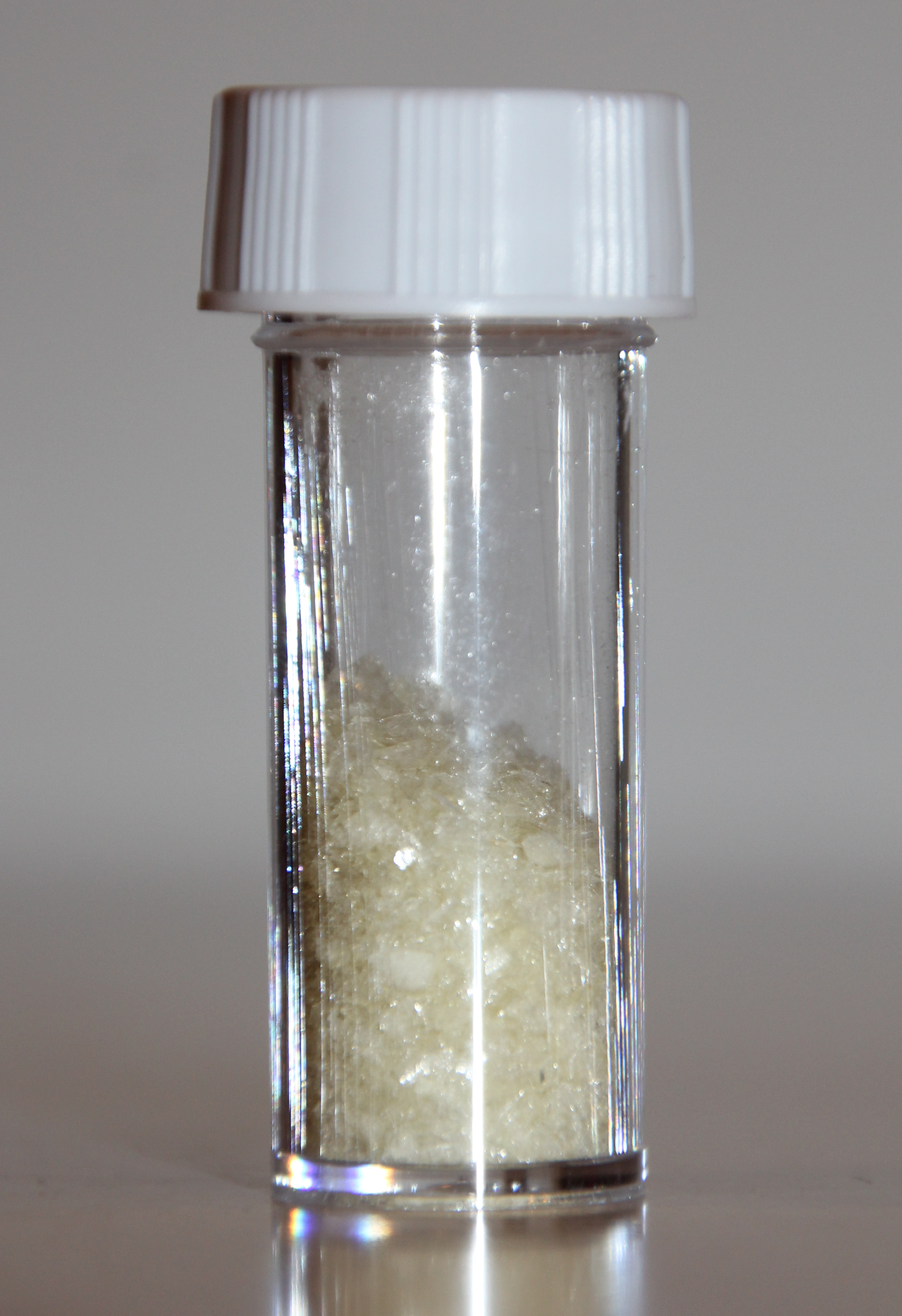 Sample of Bovine Serum Albumin